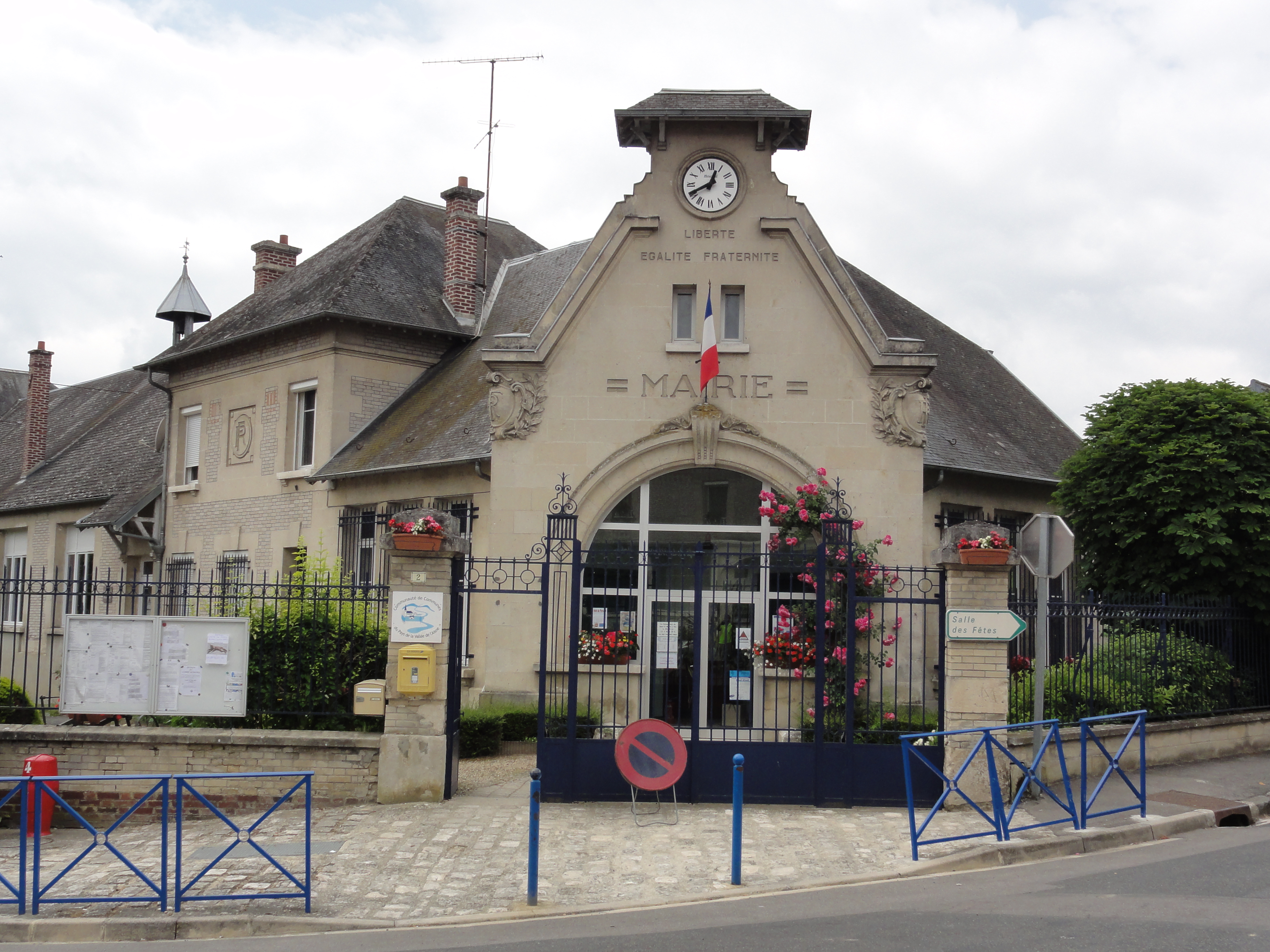 Cœuvres-et-Valsery (Aisne) mairie